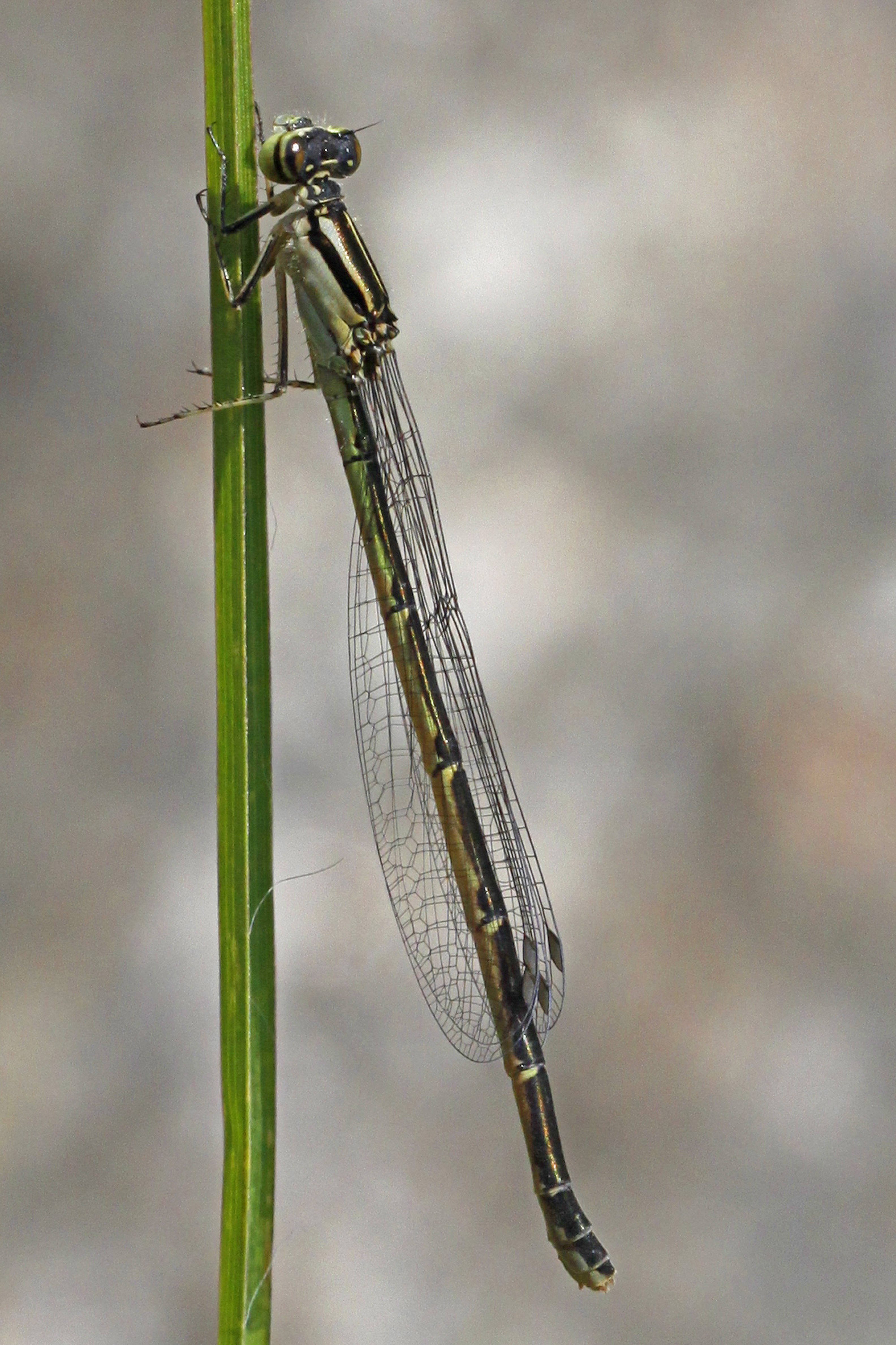 Big Bluet - Enallagma durum, Julie Metz Wetlands, Va.